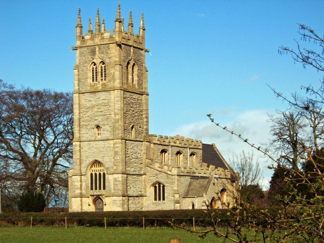 All Saints parish church, Hawton, Nottinghamshire, seen from the southwest